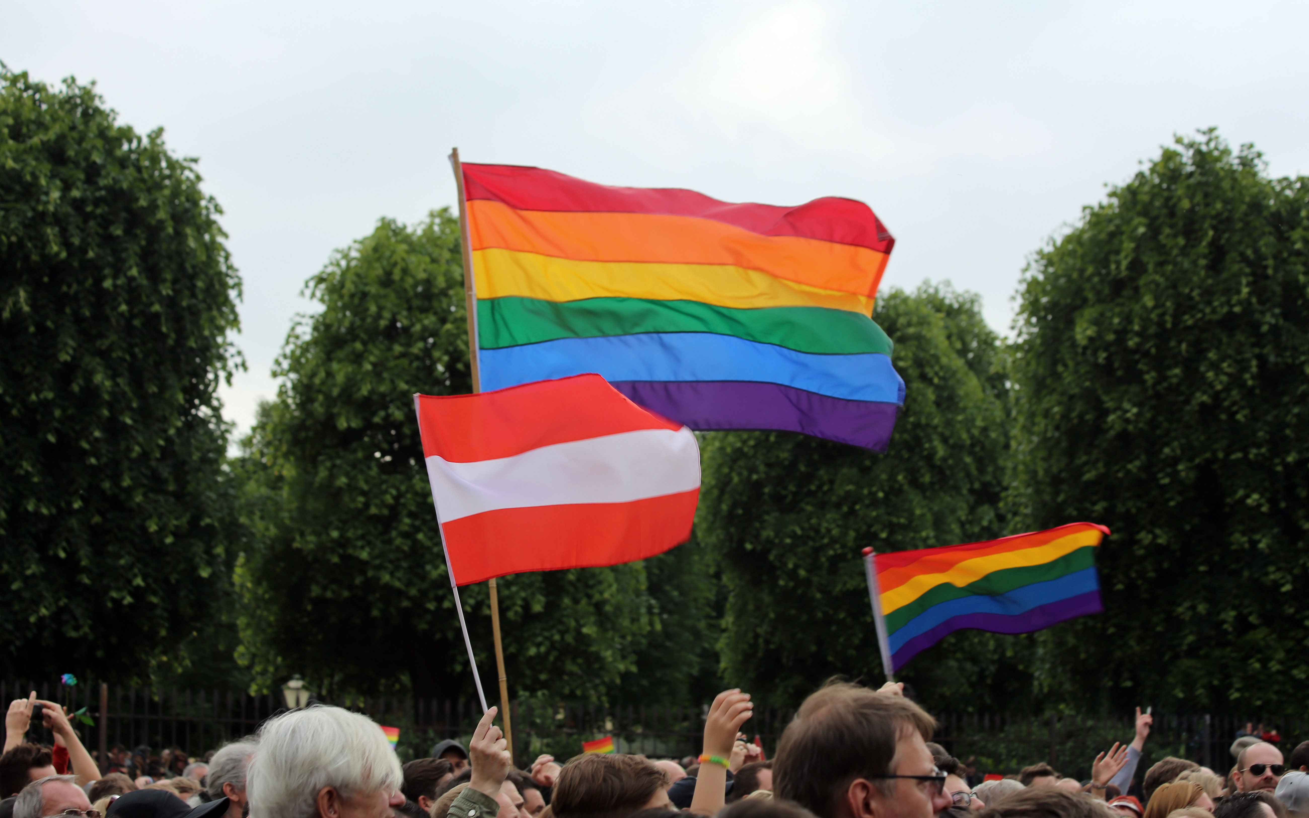 On 18 May 2014 Conchita Wurst, winner of the Eurovision Song Contest 2014 on 10 May, was officially received at the Federal Chancellery of Austria. After that she gave a performance on Ballhausplatz in front of an estimated audience of 12000 people (Vienna, Austria).